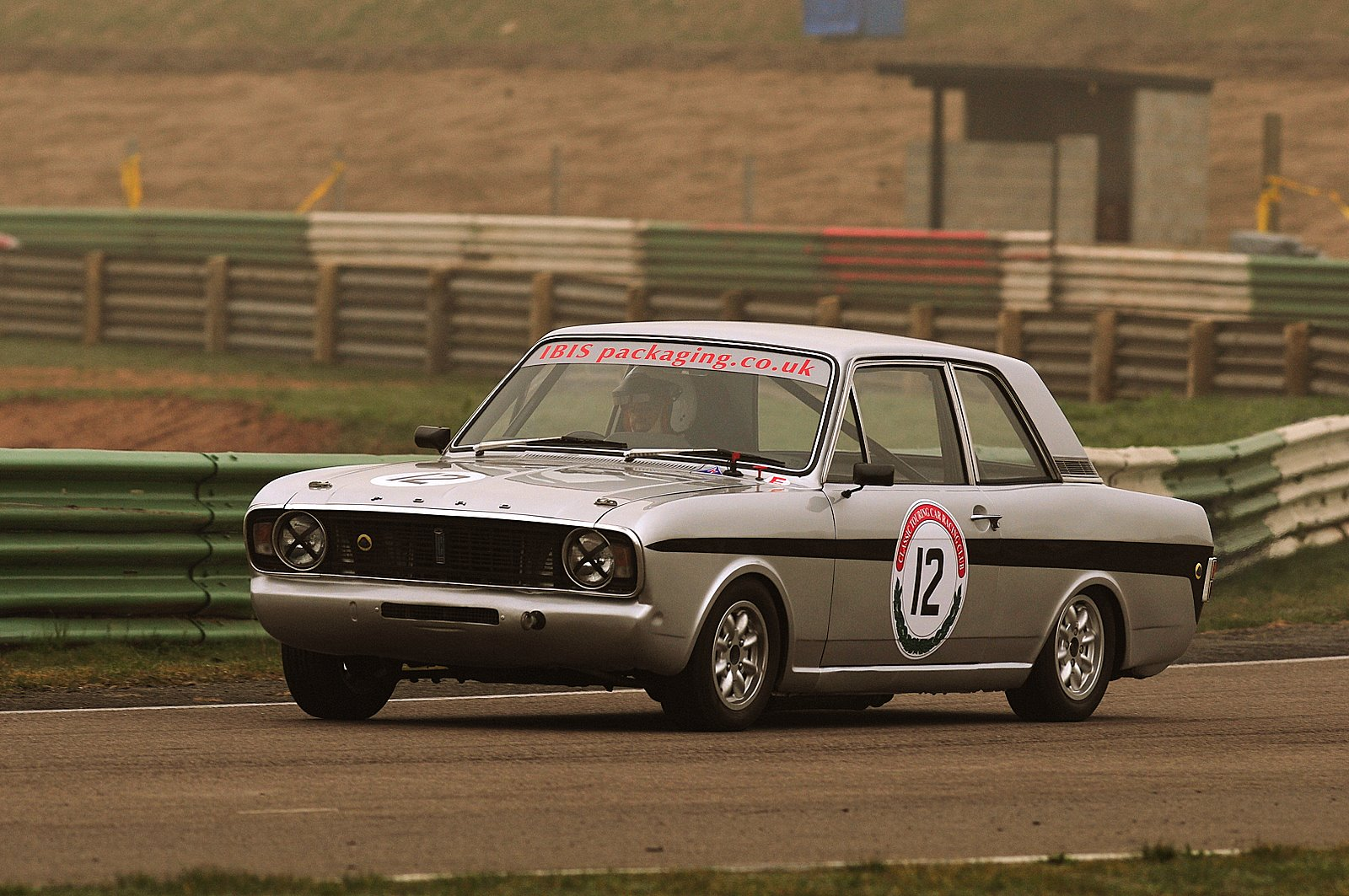 A MkII Lotus Cortina, being shaken down at Mallory Park, March 2009.